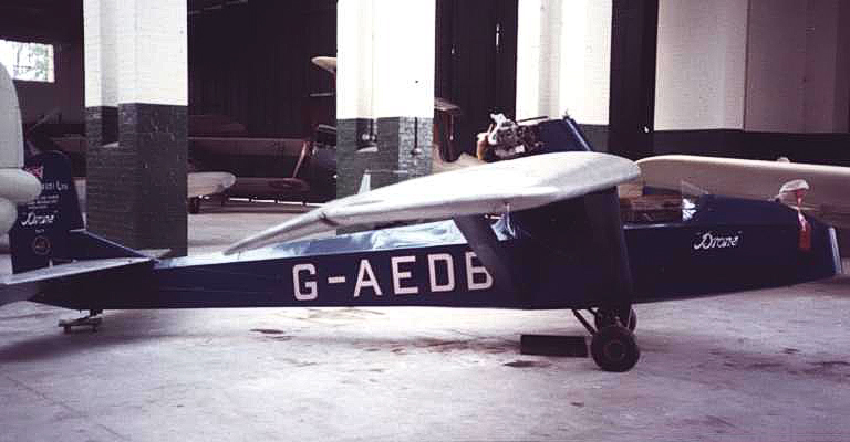 British Aircraft Company Super Drone G-AEDB at Duxford airfield Cambridgeshire